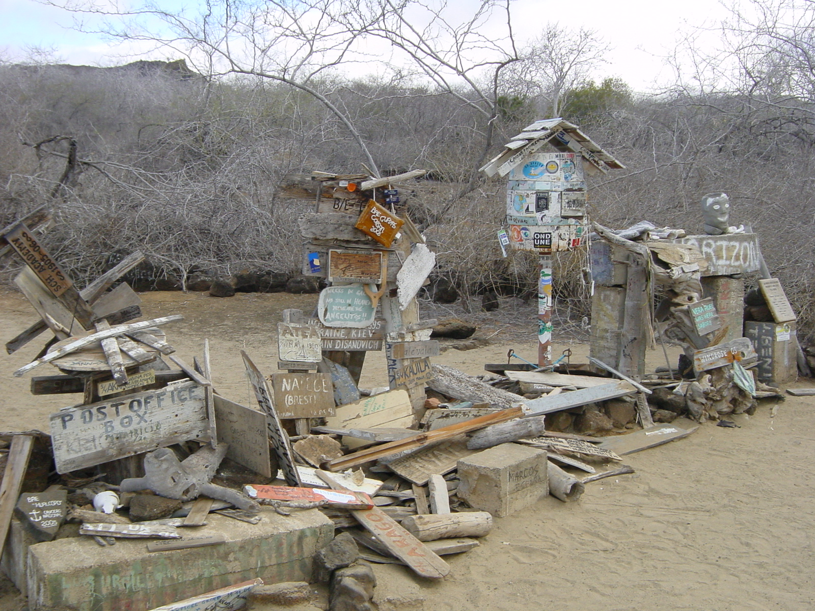 Post office barrel on Floreana, post office bay, Galapagos